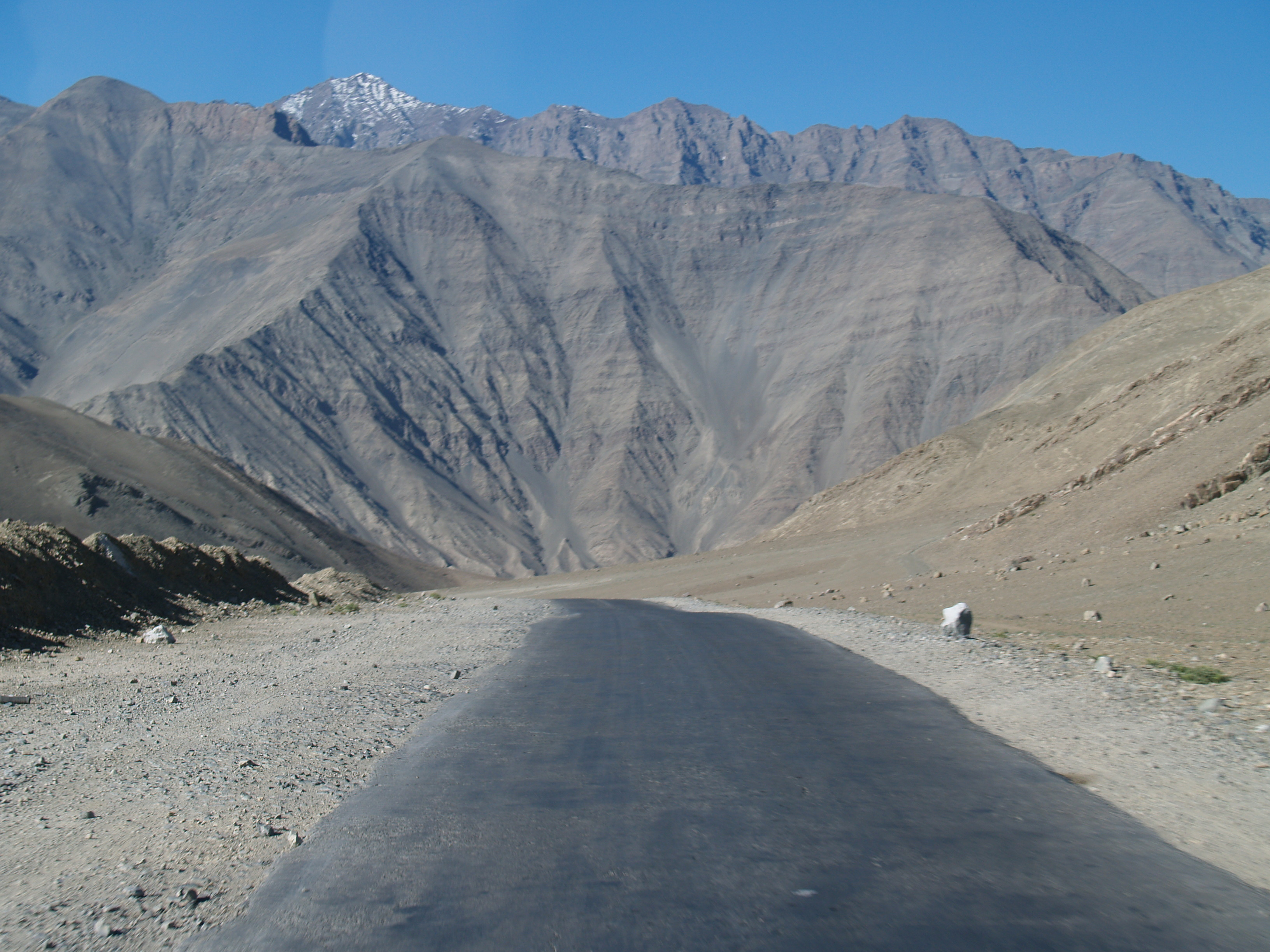 Road to Alchi.